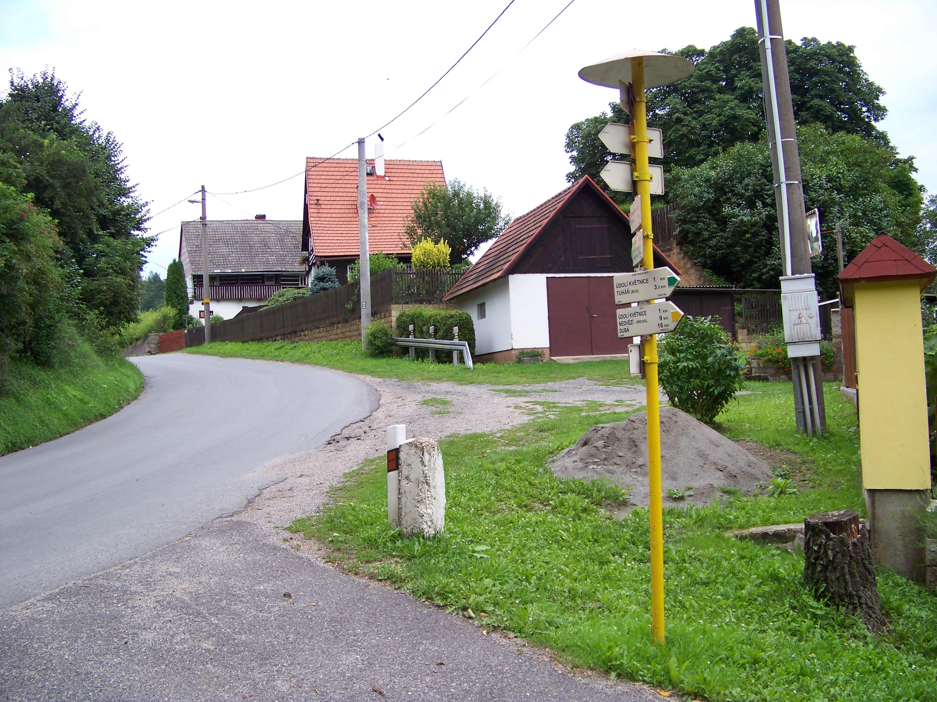 Tuhaň-Pavličky, Česká Lípa District, Liberec Region, the Czech Republic.